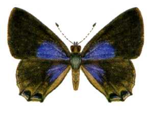 Acrodipsas cuprea (copper ant-blue butterfly) Phylum ARTHROPODA Class HEXAPODA Order Lepidoptera Family Lycaenidae